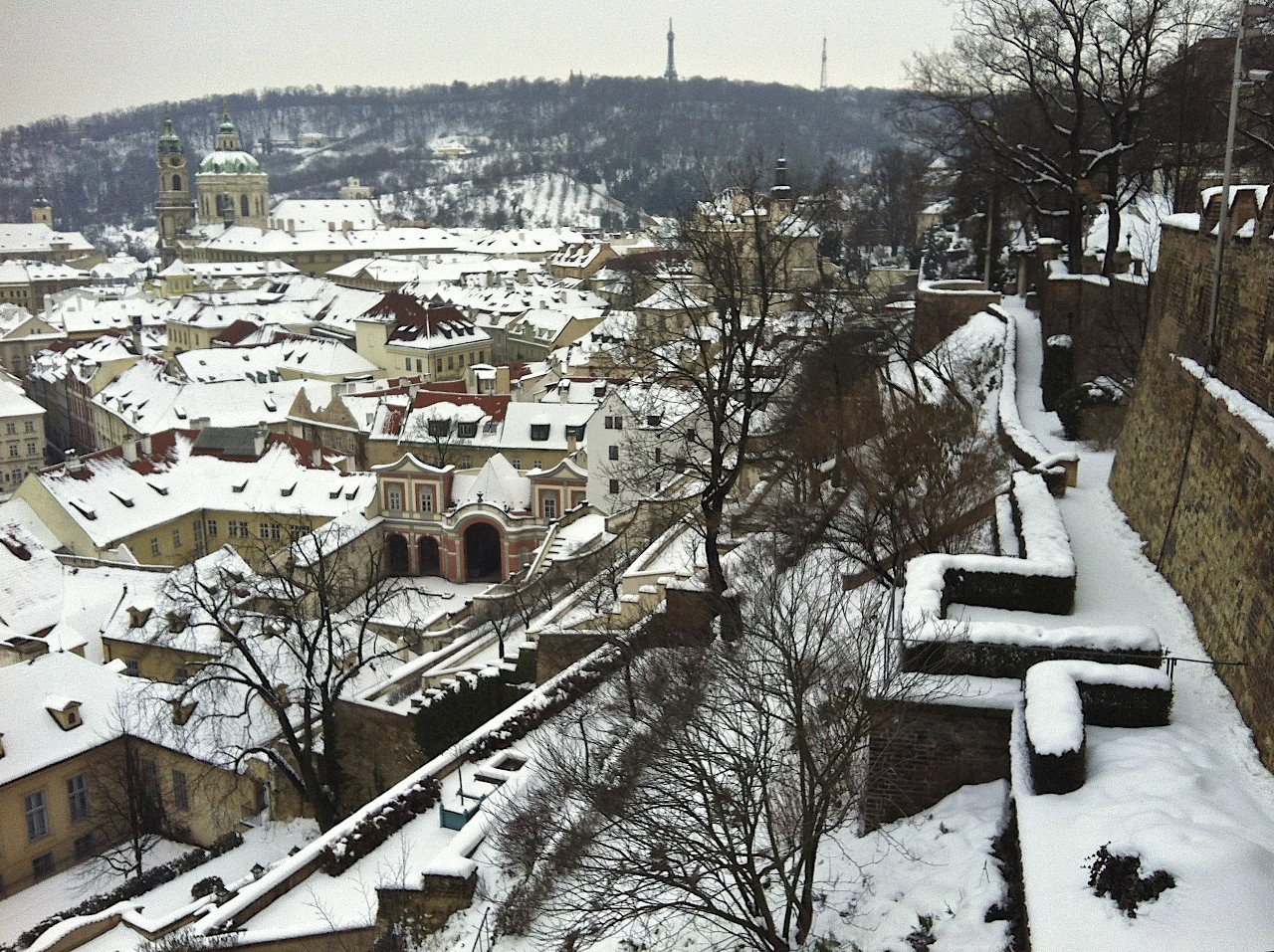 Winter view of Malá Strana (baroque gardens and roofs) toward the hill Petřín, from the lower gate to the Prague Castle.